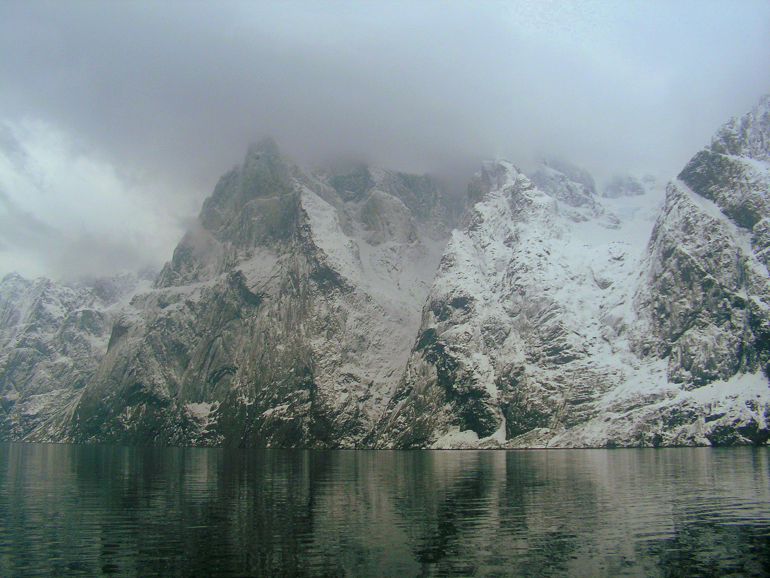 Mountains near Aappilattoq (Nanortalik), Greenland. Picture taken by me, December 2005.